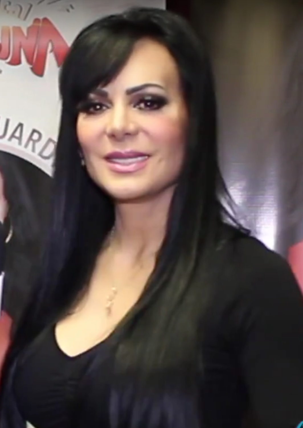 Maribel Guardia during an interview on January 11, 2017.